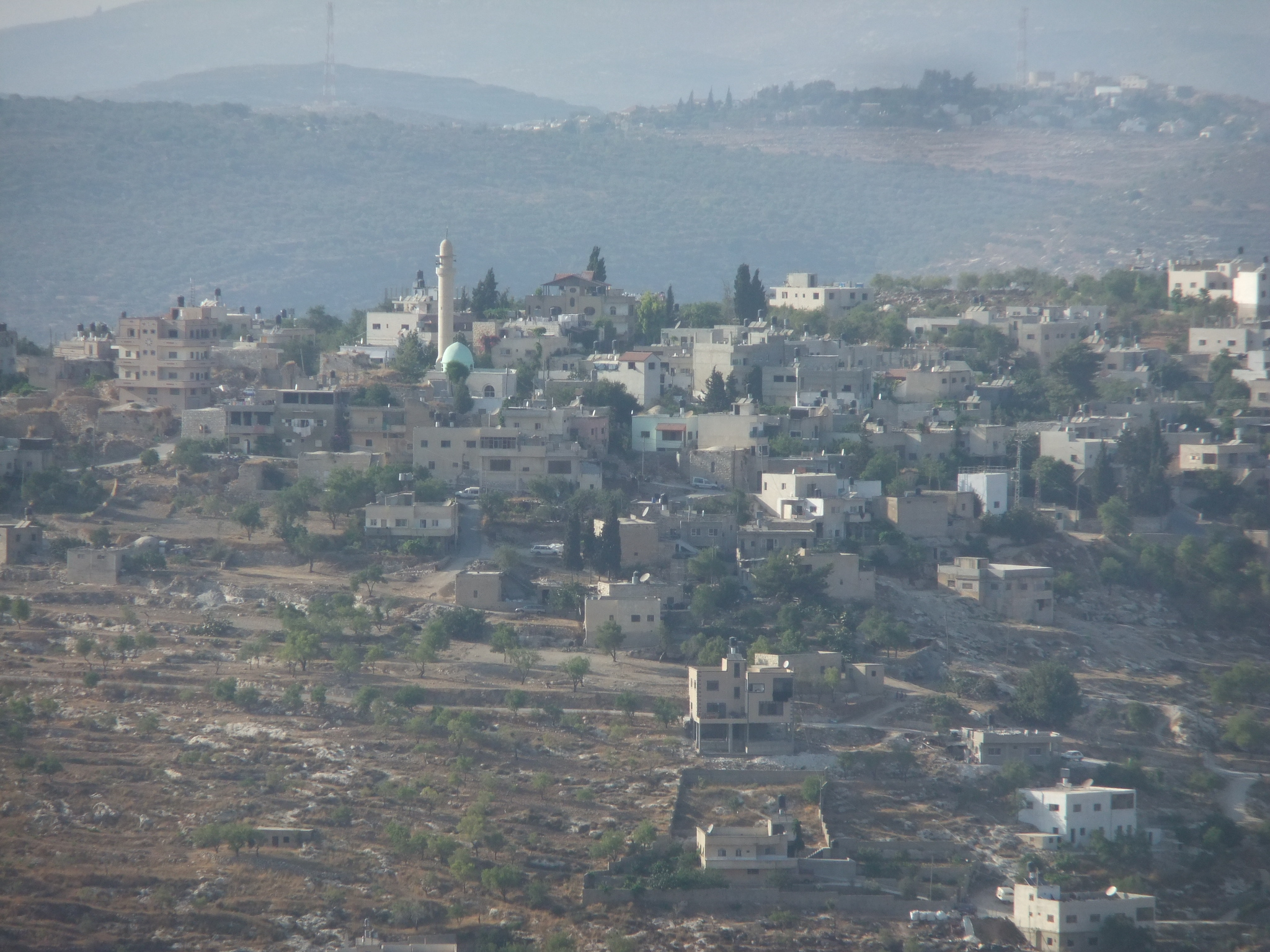 As-Sawiya taken from Eli. Behind is Kfar Tapuach.